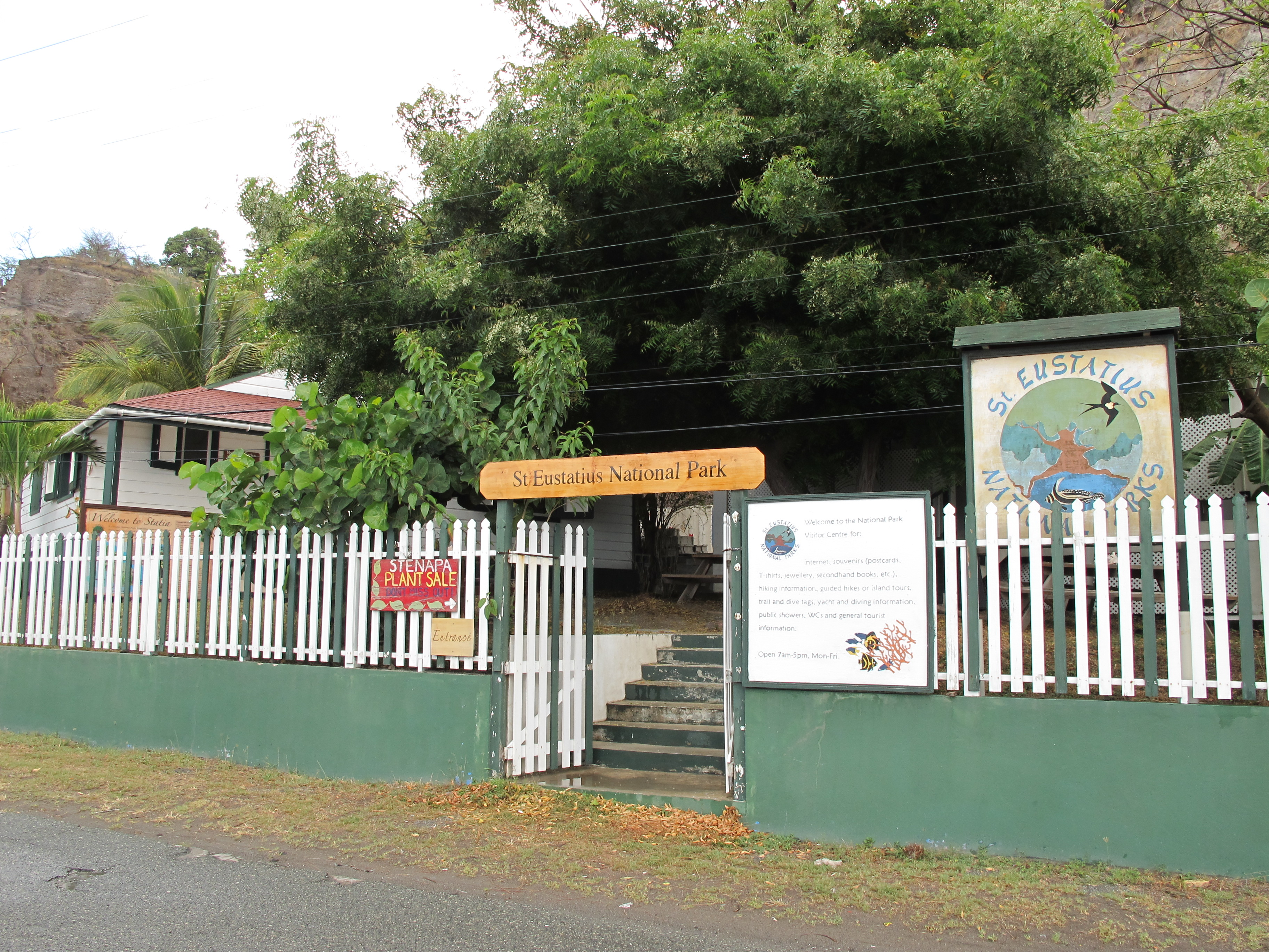 The headquarters of STENAPA (the St. Eustatius National Parks organization) in Lower Town on the Dutch island of Sint Eustatius, West Indies, in 2010